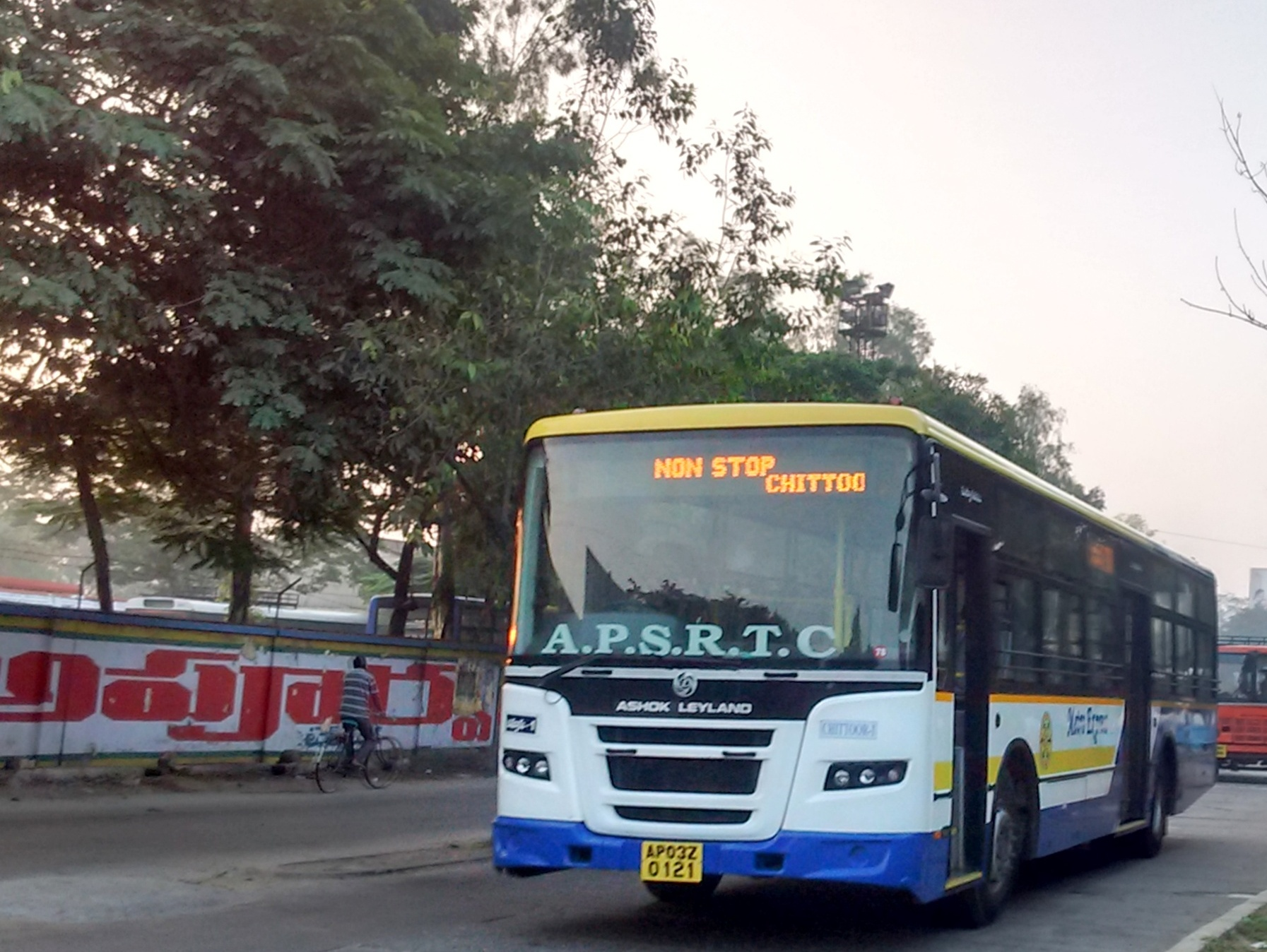 APSRTC's metro express bus procured with JnNURM-2 (aca) funds heading towards Chitoor to pick passengers .